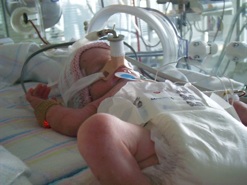 Prematur in incubator with CPAP